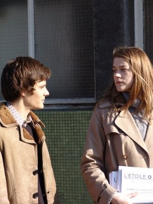 Ma saison super 8